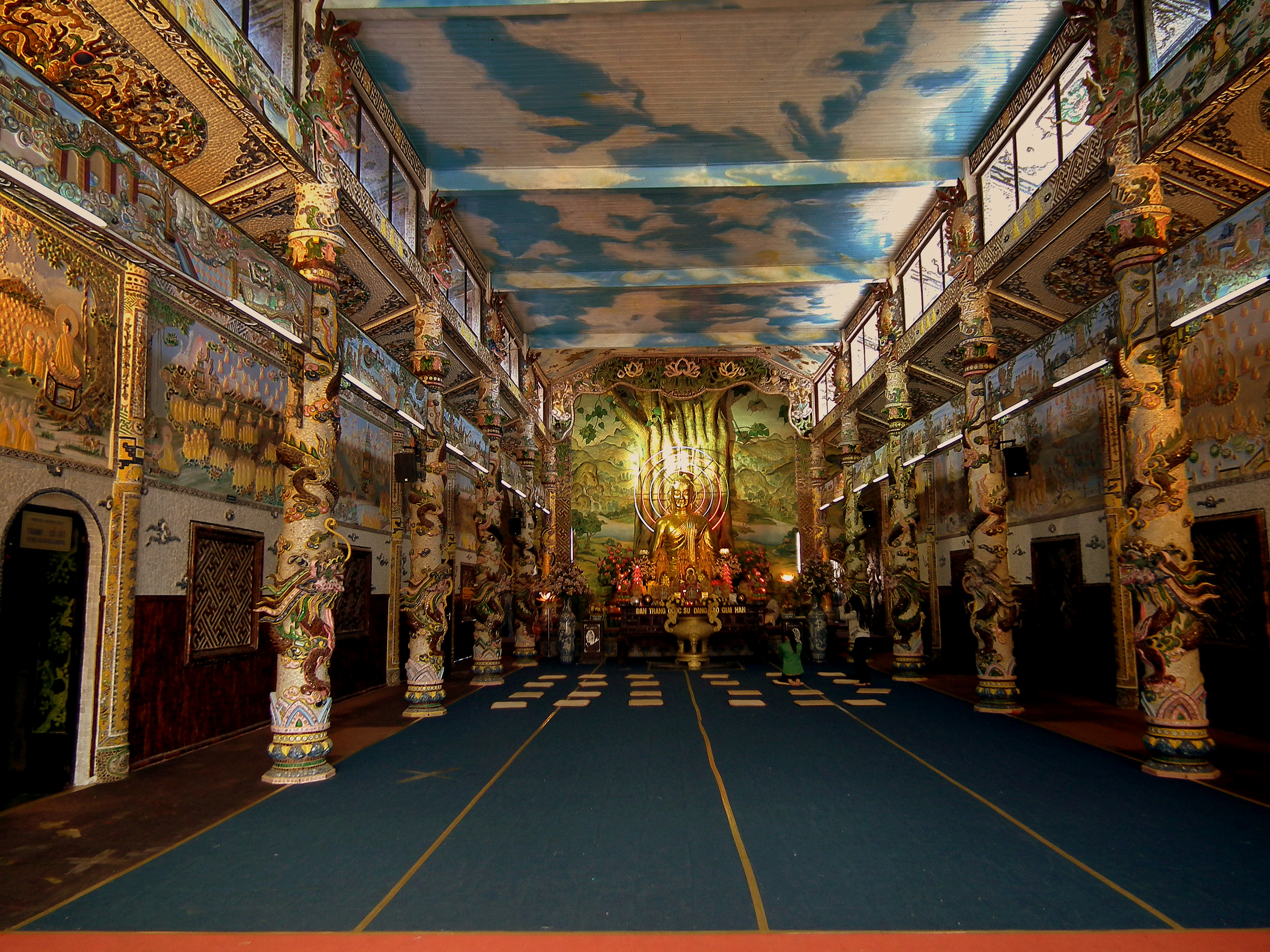 BUDDIST TEMPLE TRAIMAT VIETNAM JAN 2012